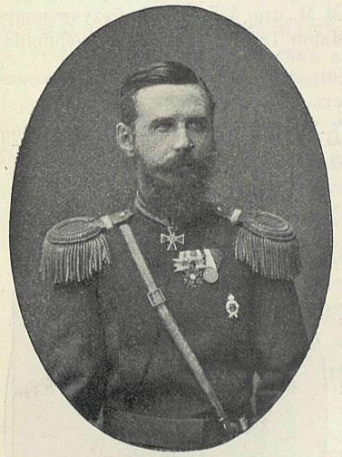 The actual state councilor, honorary citizen of the Kursk Kleinmichel Constantine.